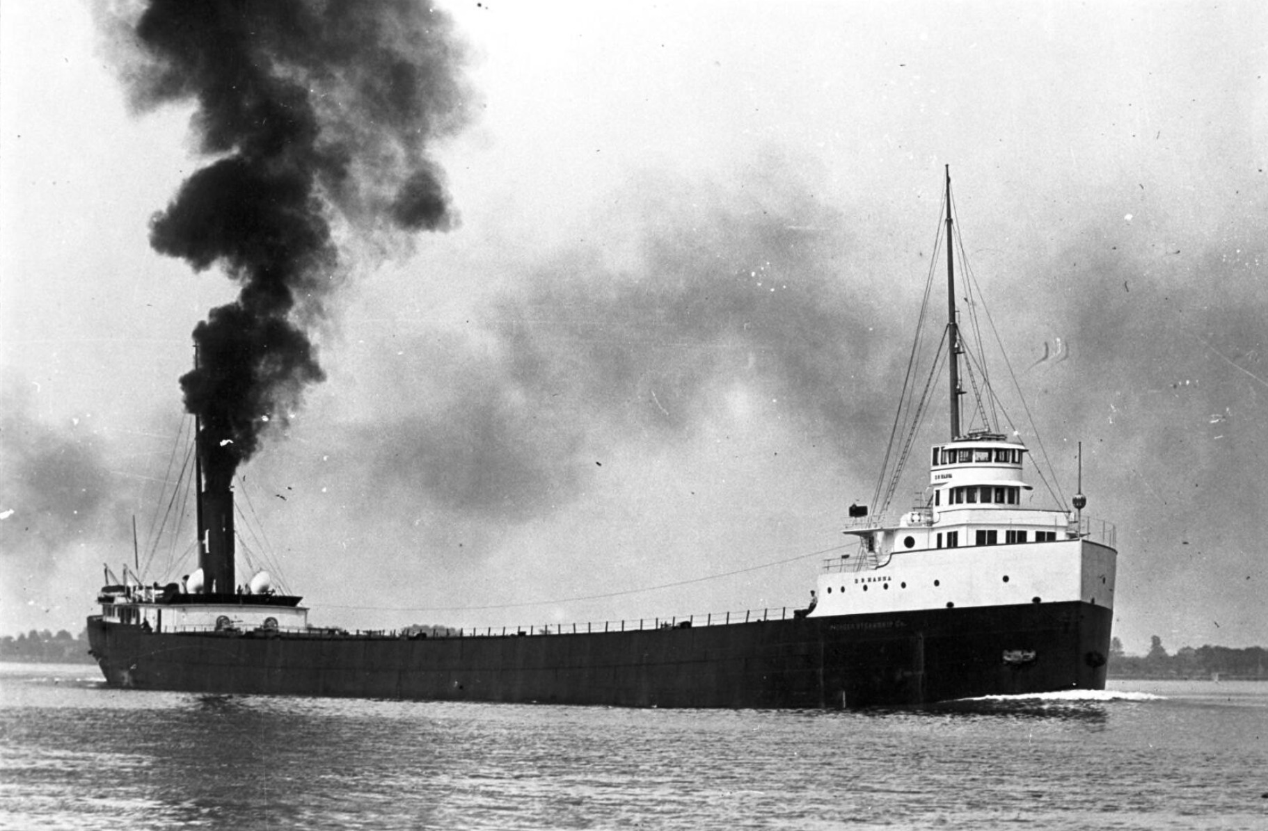 The steamer D.R. Hanna before she sank